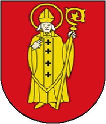 Coat of arms of Mervelier, Canton of Jura, Switzerland (Source: Symbol on the wall of the municipal administration)